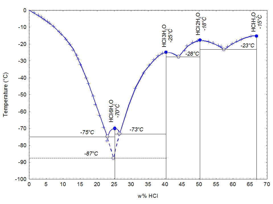 Solid-liquid phase diagram of binary HCl water mixtures